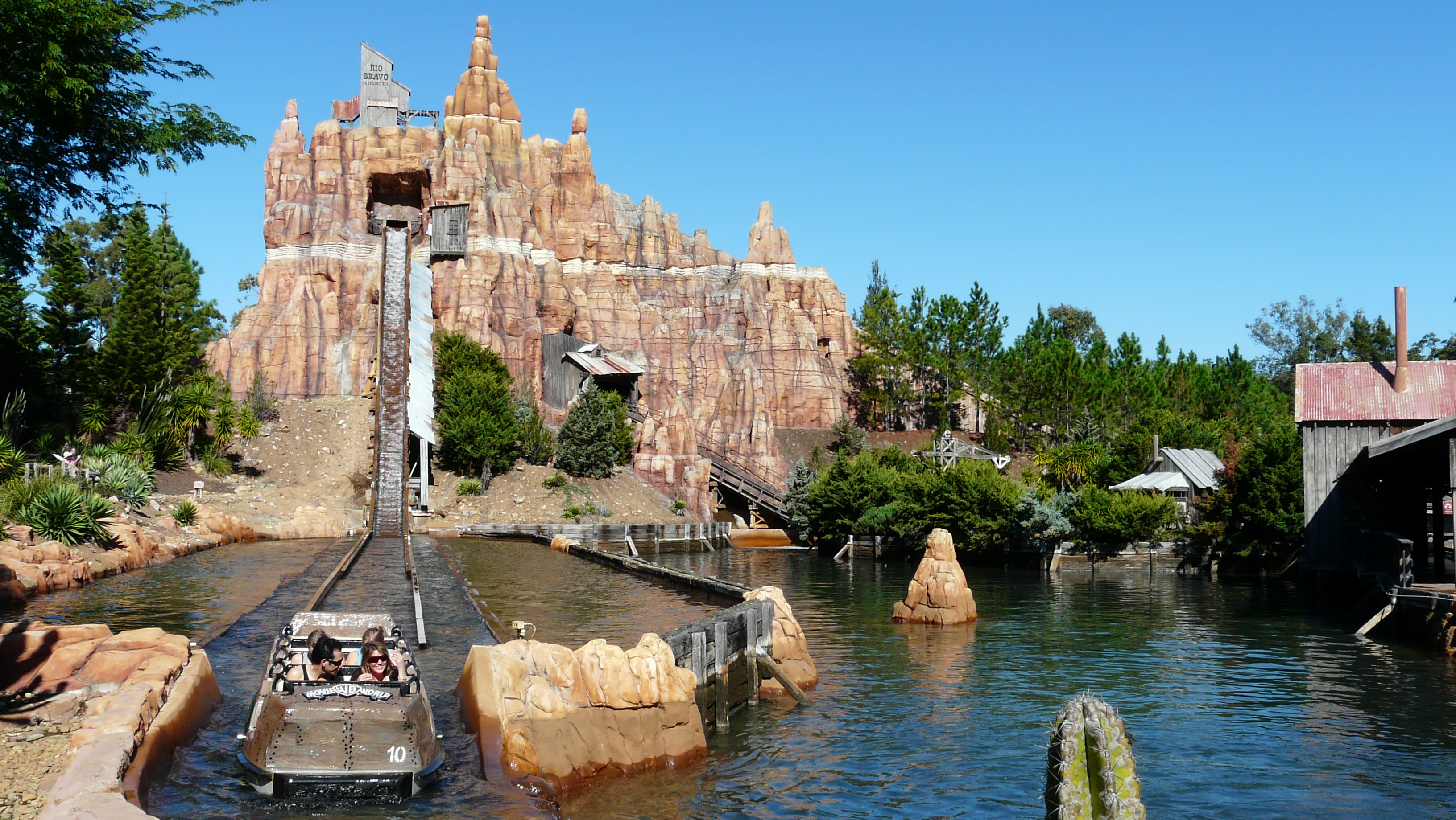 Movie World Wild Wild West